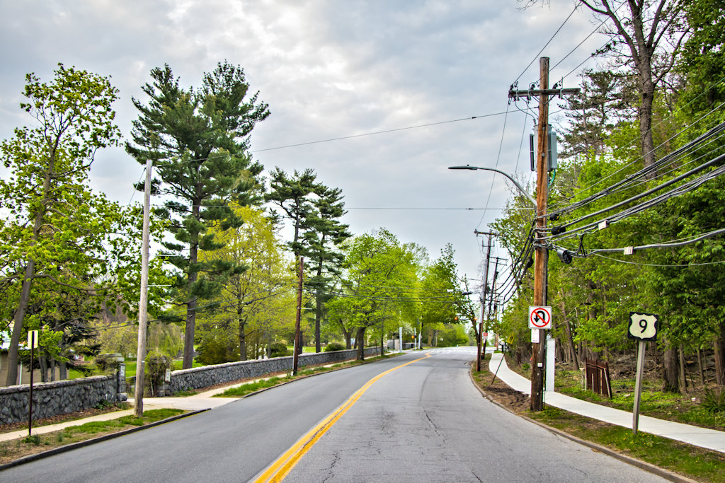 US Route 9 (North Broadway), in Yonkers, Westchester County, New York.